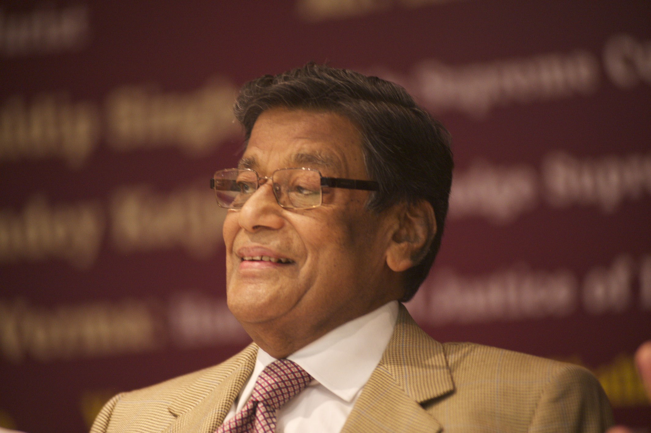 One of India's most successful Supreme Court lawyers